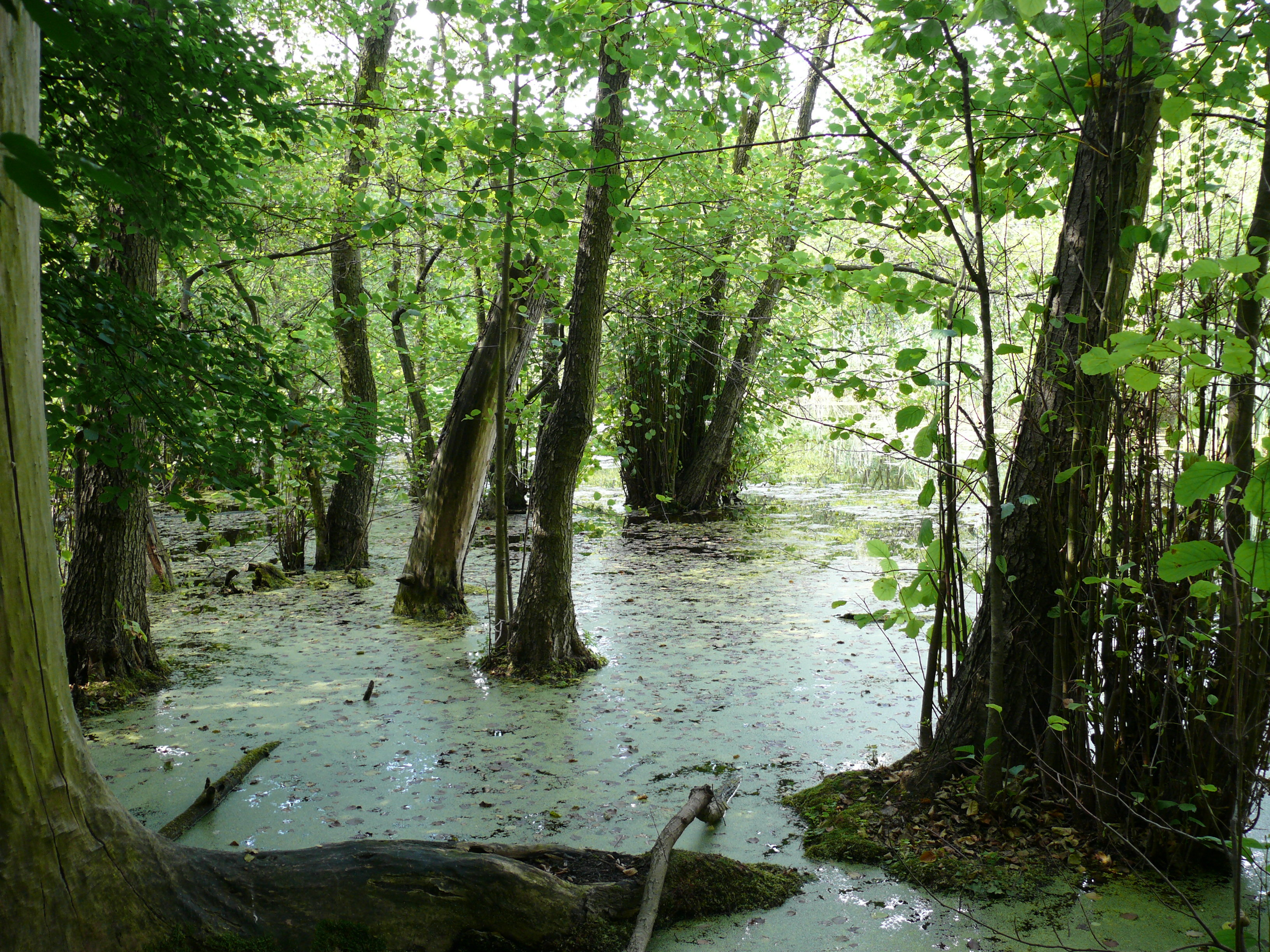 Nikolassee